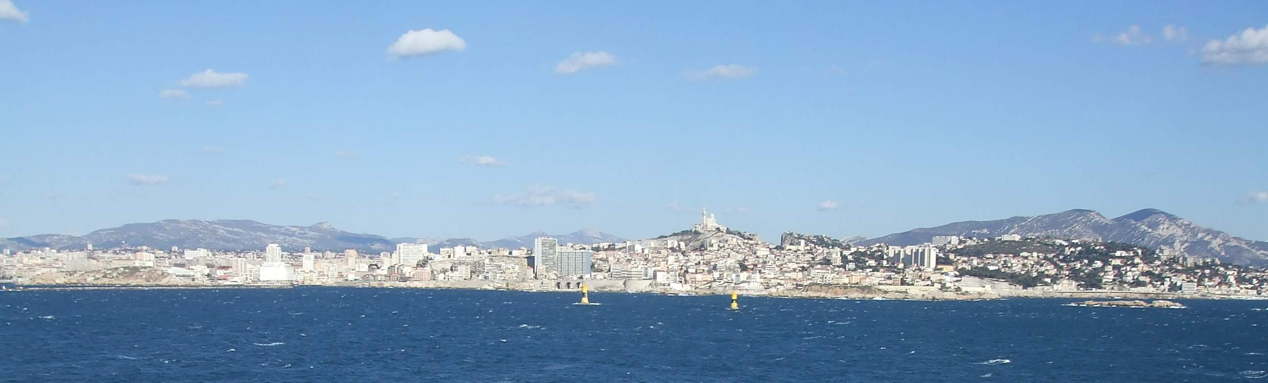 Marseille, panoramic view from the sea